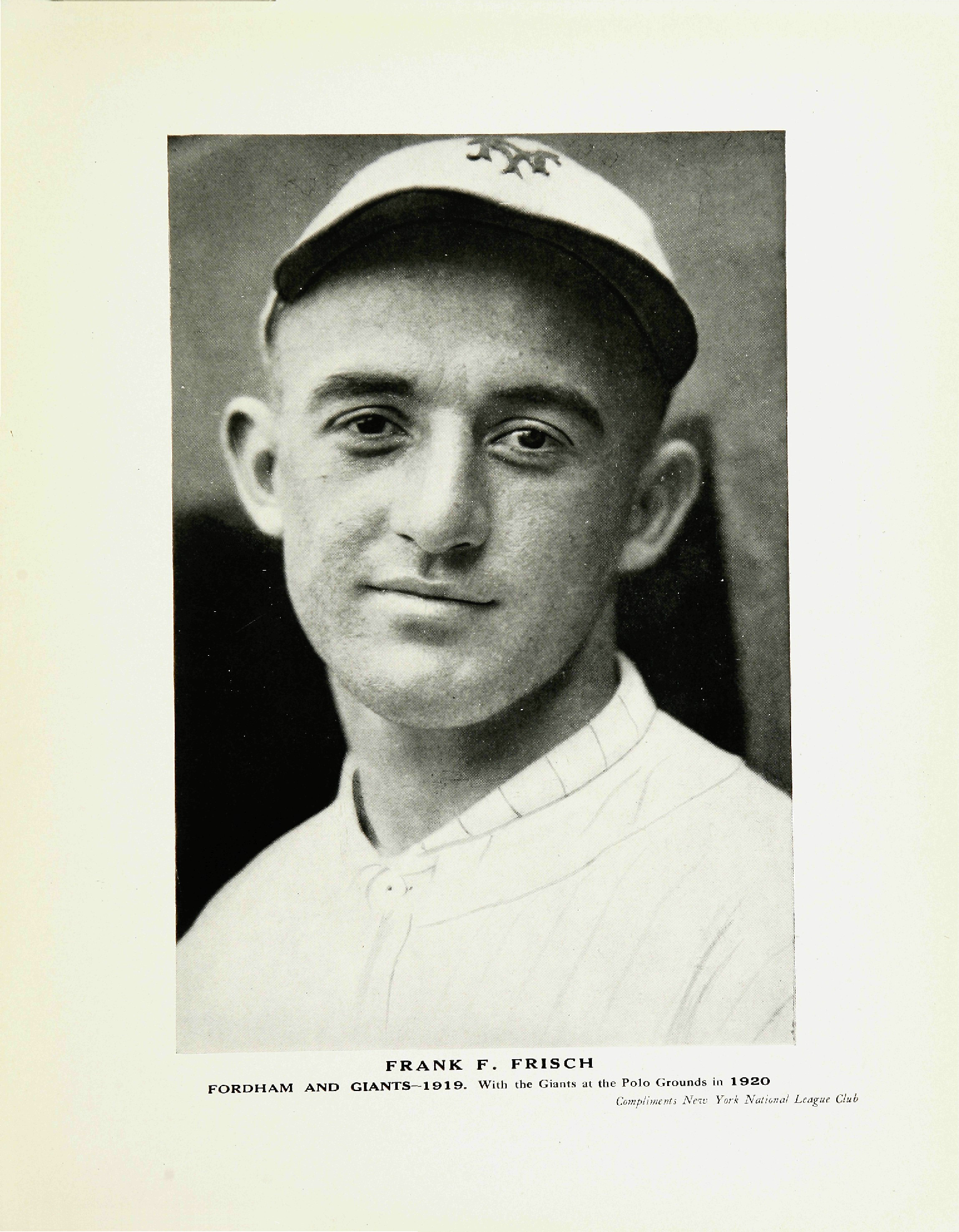 Photo of Frankie Frisch with the New York baseball club, published in his alma mater's yearbook The maroon : 1919 on Page 159